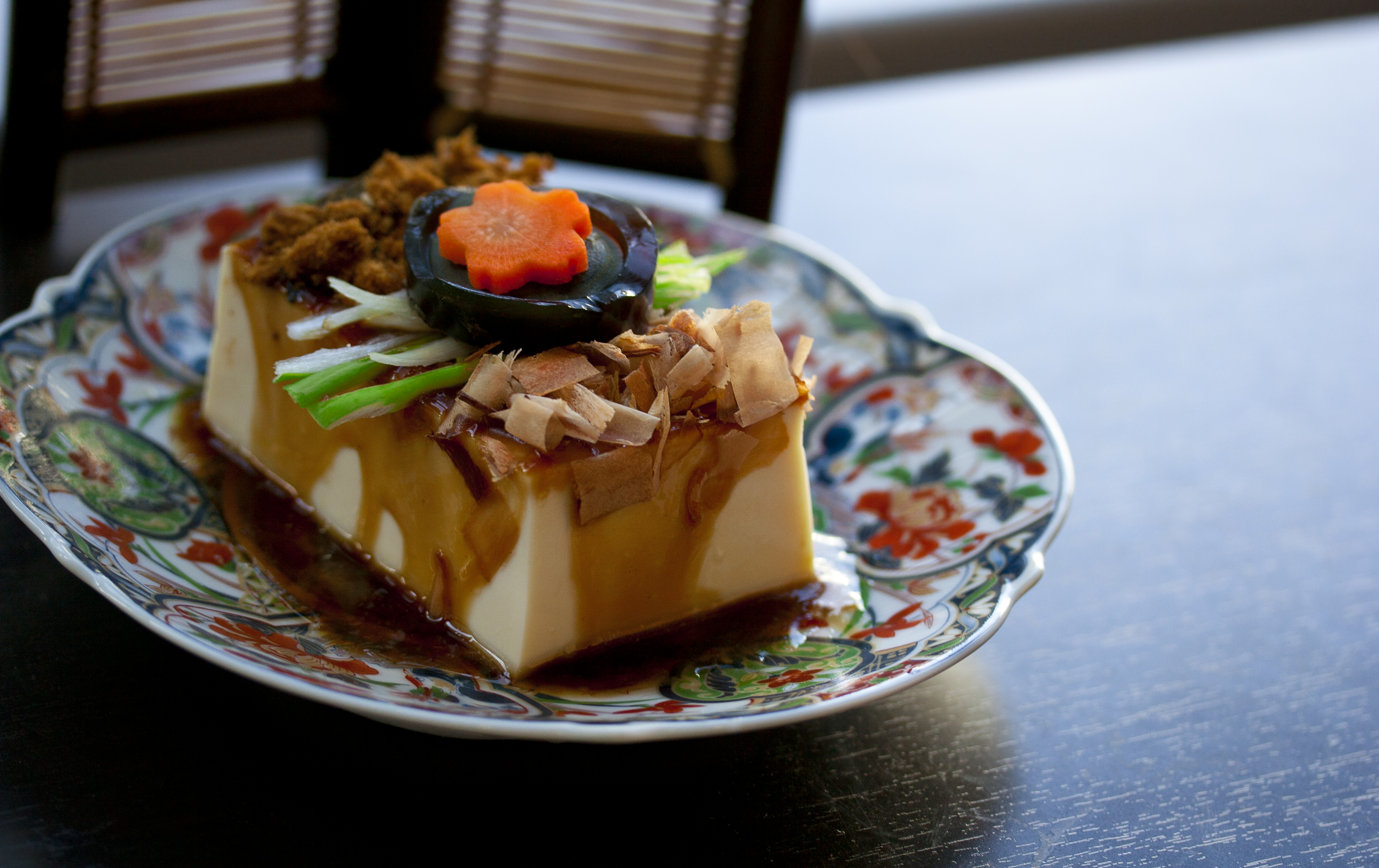 Taiwanese Cold Tofu Salad